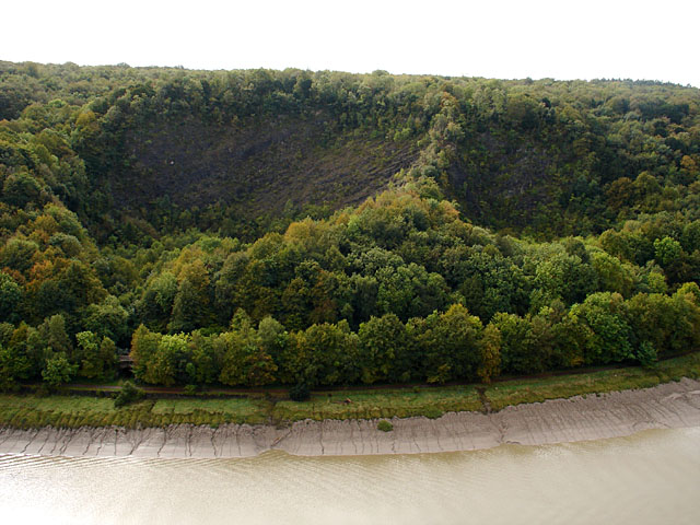 Quarries in Avon Gorge Two disused limestone quarries on the west side of Avon Gorge, surrounded by the trees of Leigh Woods. Taken from the Viewing Point.